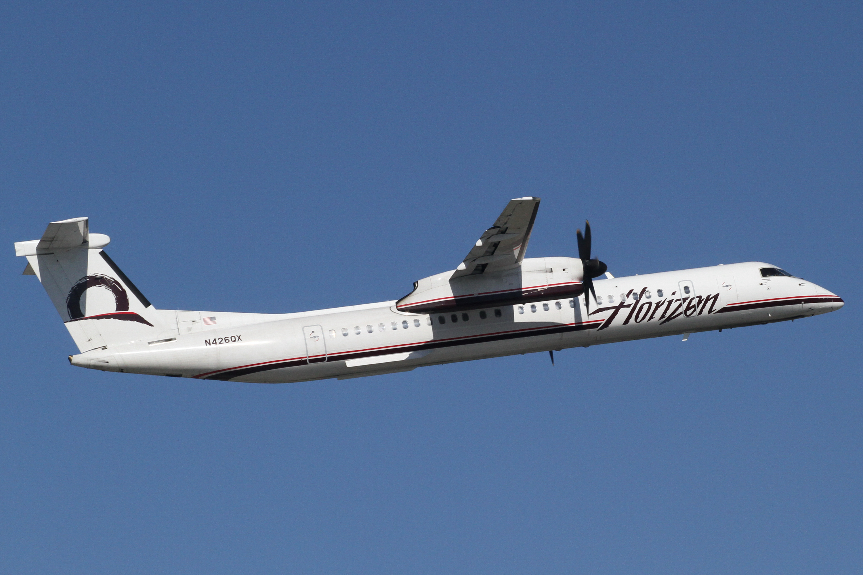 Seattle-Tacoma International Airport, De Havilland Canada DHC-8-402Q Dash 8, c/n:4154, Horizon Air